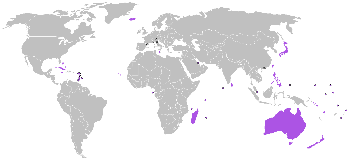 Map of the world, locating borderless countries (purple) as listed on Borderless country.